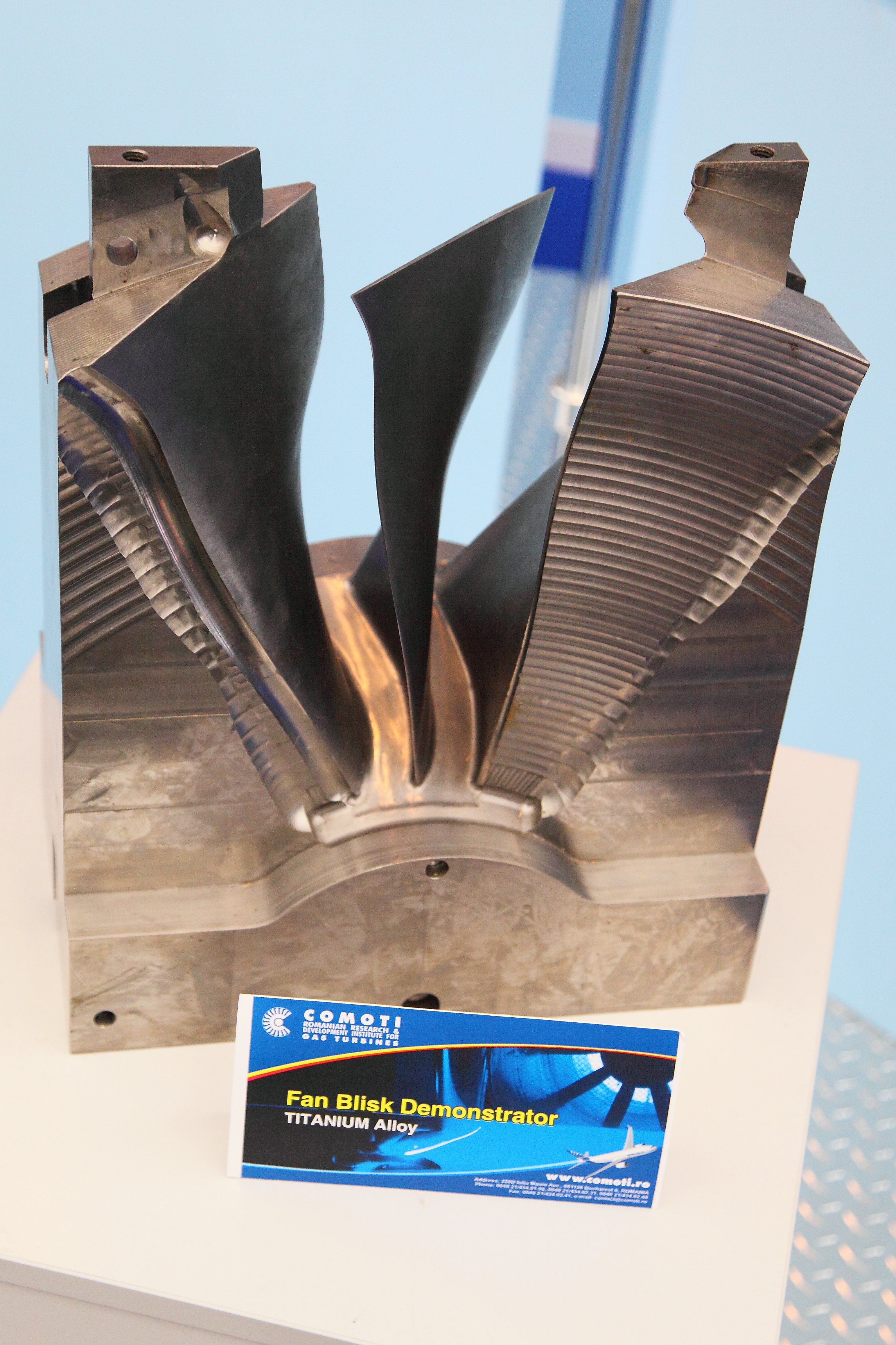 ILA Berlin Air Show 2012; Fan Blisk Demonstrator; Titanium Aloy ; COMOTI: Romanian Research and Development Institute for Gas Turbines